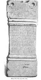 Altar dedicated to Fortuna Conservatrix, found in or before 1725 in a roman bath, Netherby (GB).